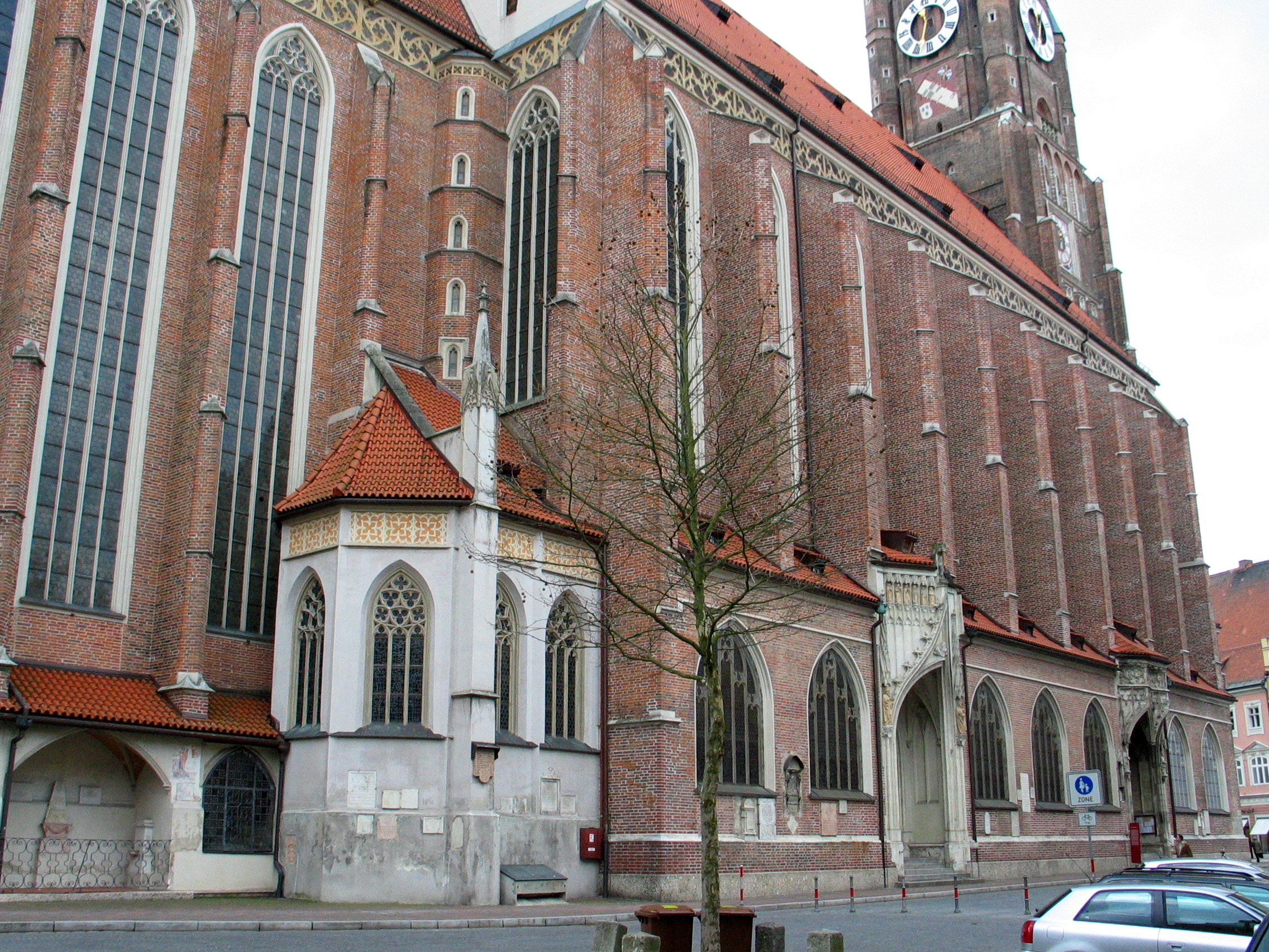 Landshut, Germany, Church of St Martin, outer wall of choir and northern aisle, including St Magdalene's Chapel